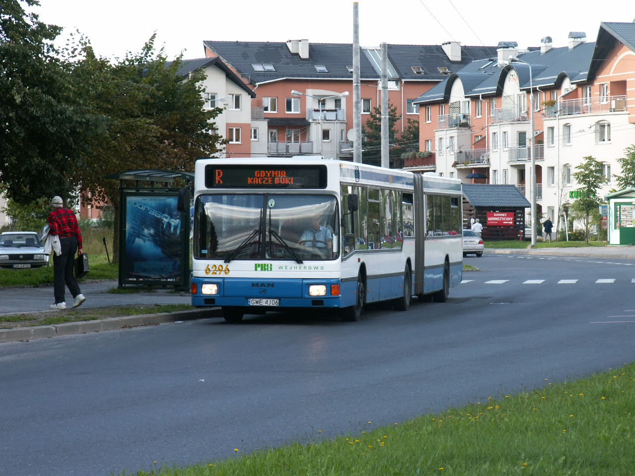 MAN NG272 city bus (#6296) in Gdynia, Poland. Built 1992, PKS Wejherowo operator.